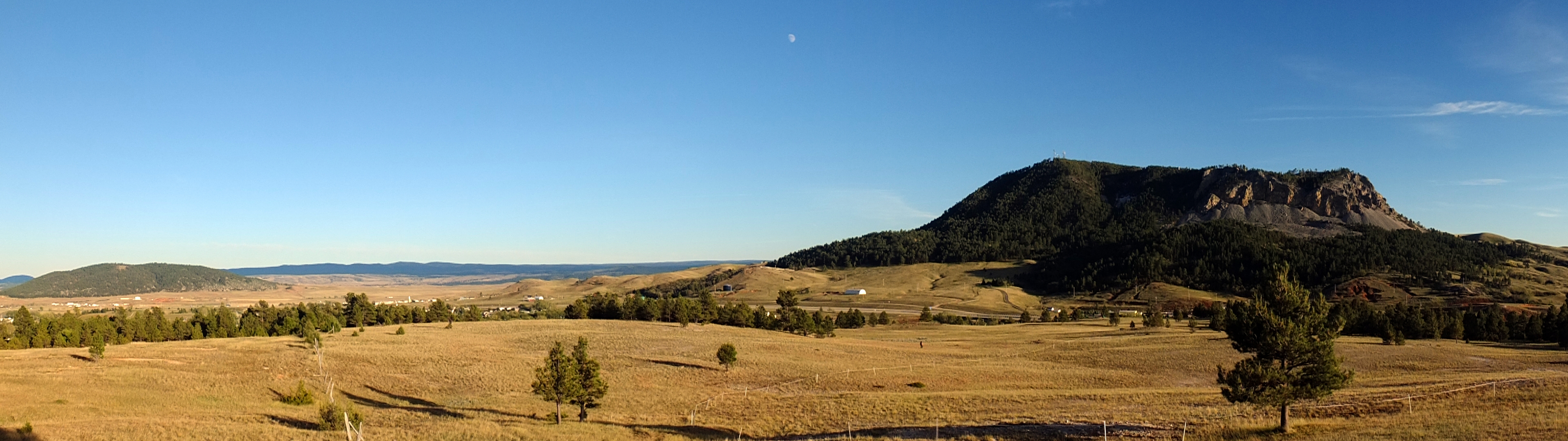 Sundance is located in the Wyoming Black Hills